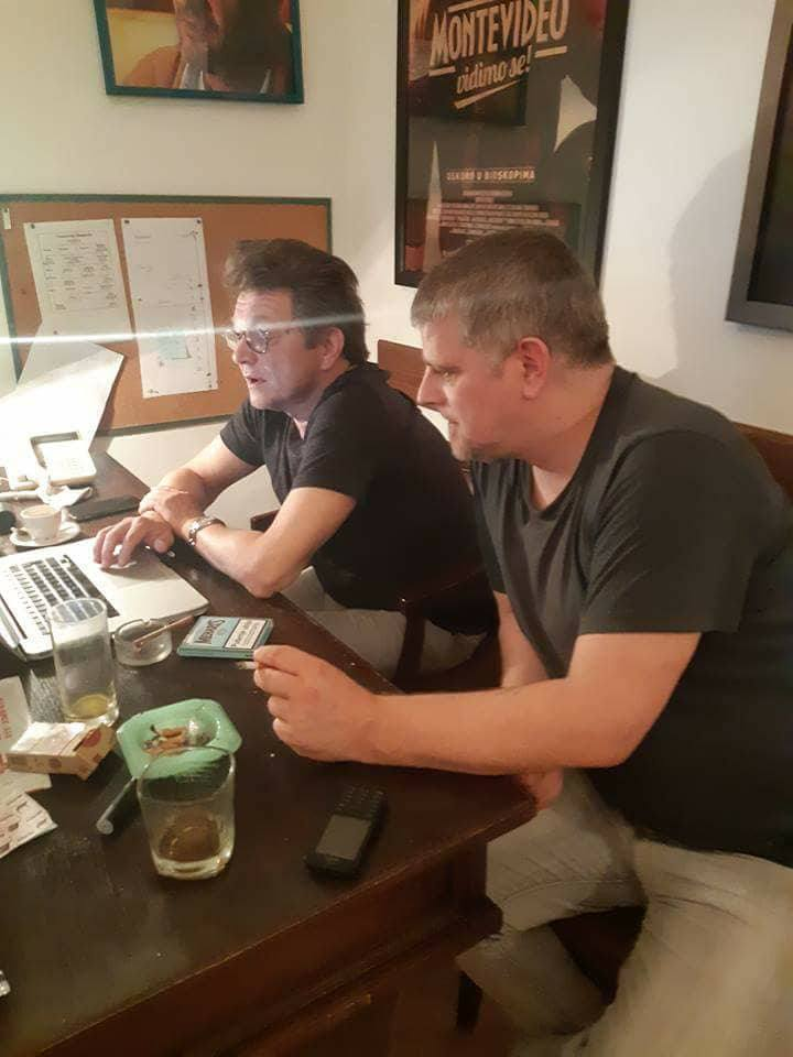 Dragan Bjelogrlić i Vladimir Kecmanović working on a scenario for second season of TV show "Shadows over Balkans"